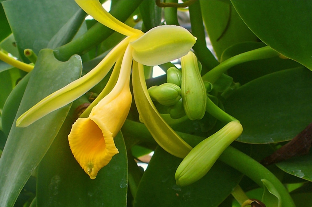 Vanilla abundiflora Аҧсшәа: Vanilla abundiflora Acèh: Vanilla abundiflora